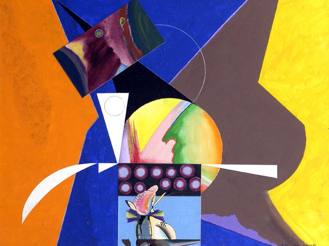 Eugene J.Martin, A Nutcracker, mixed media collage on paper, h: 22 x w: 29 inch